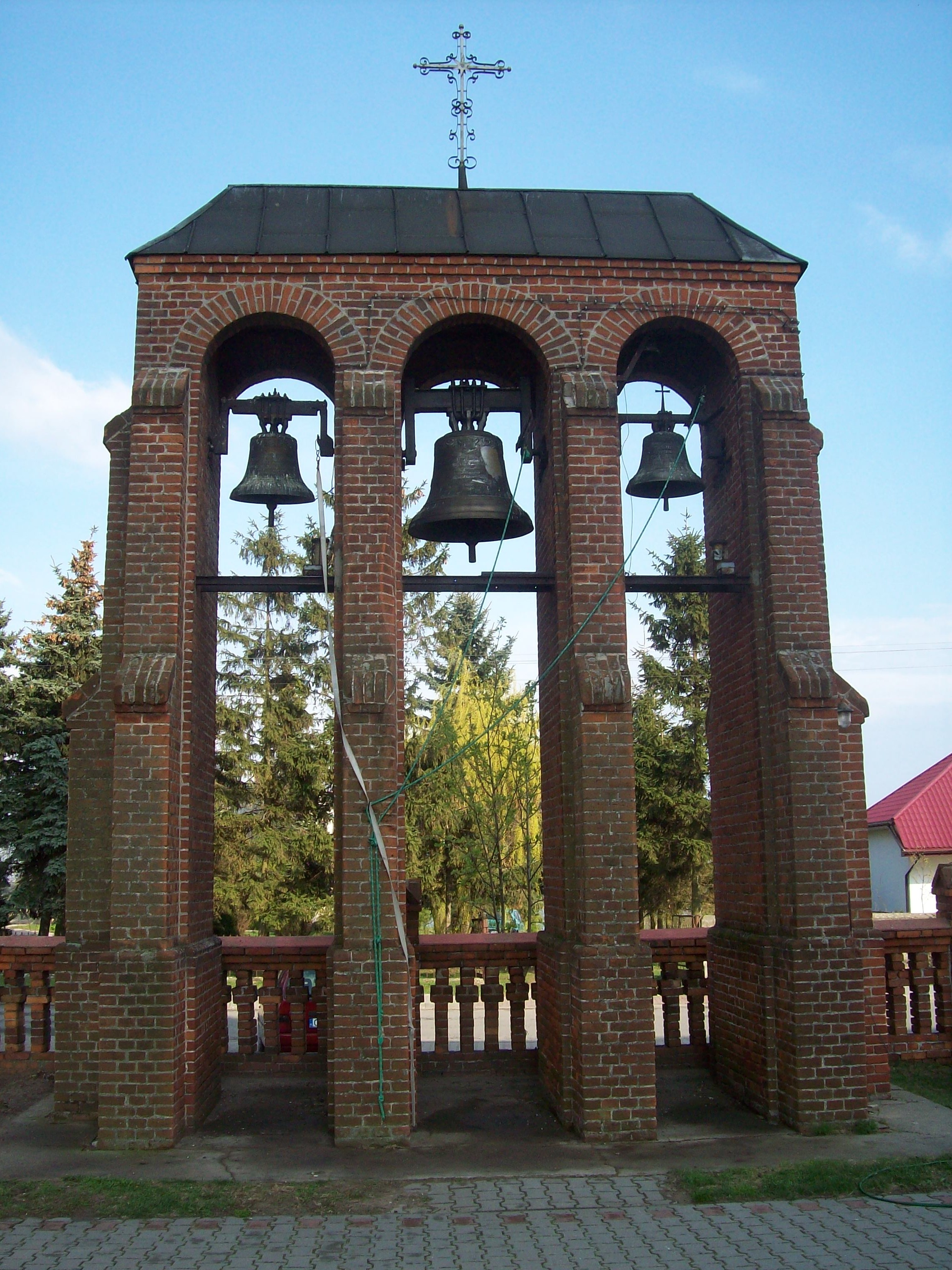 Campanile near catolic church in Bytoń (PL)